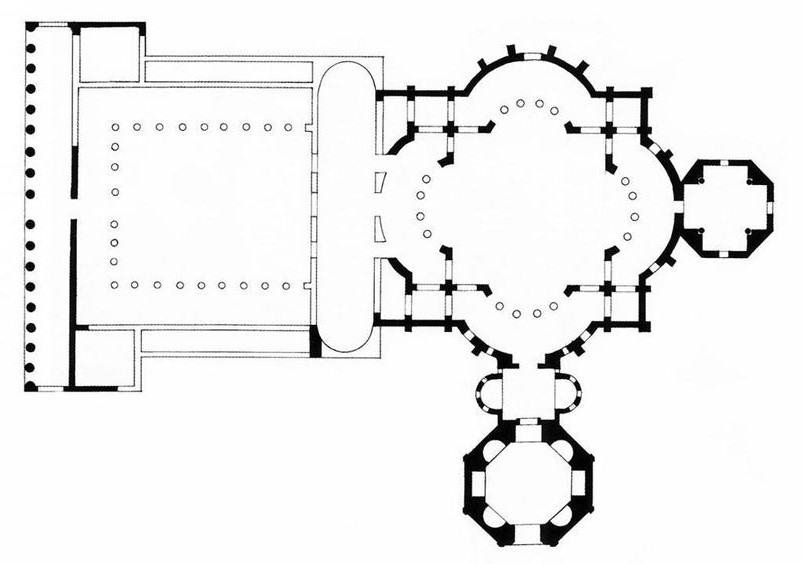 rotated version of this